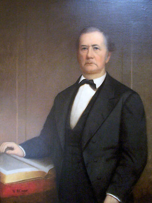 Rev. Alexander Little Page Green by Washington B. Cooper, circa 1870. National Society of Colonial Dames of America in Tennessee